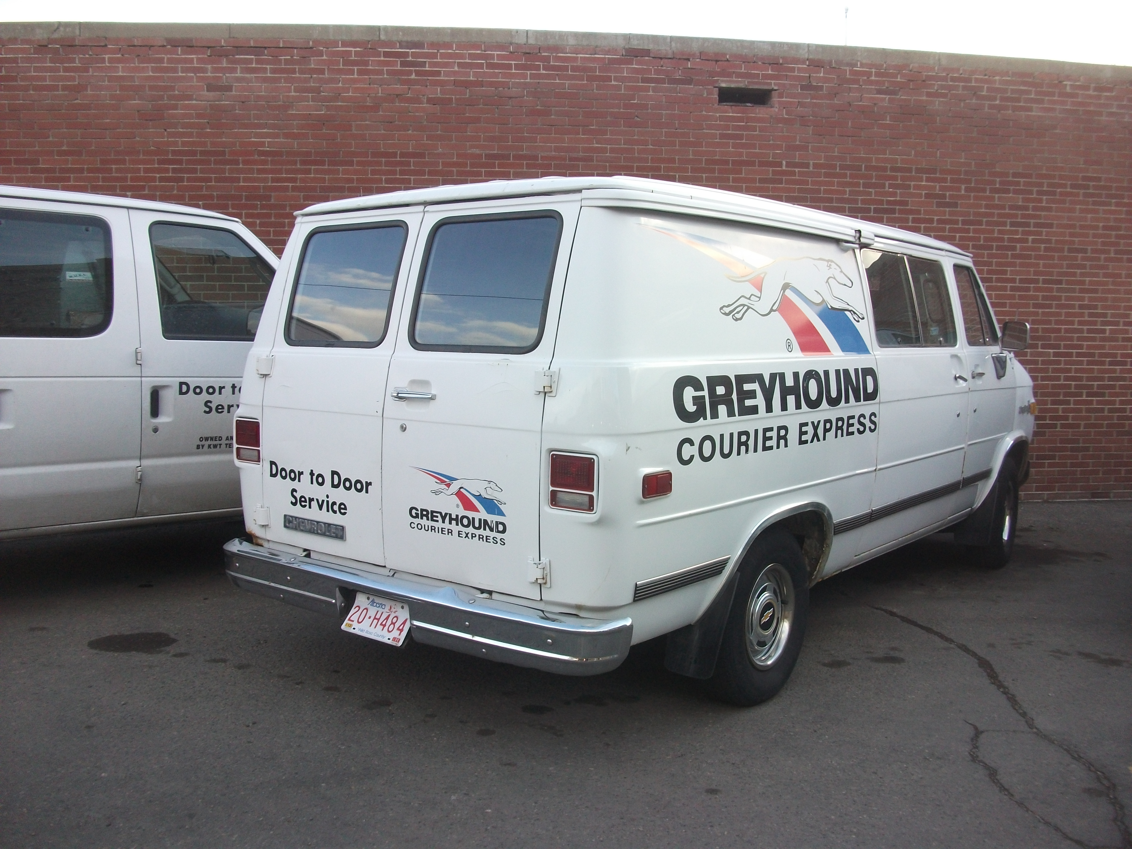 An older Chevrolet van still in use by Greyhound